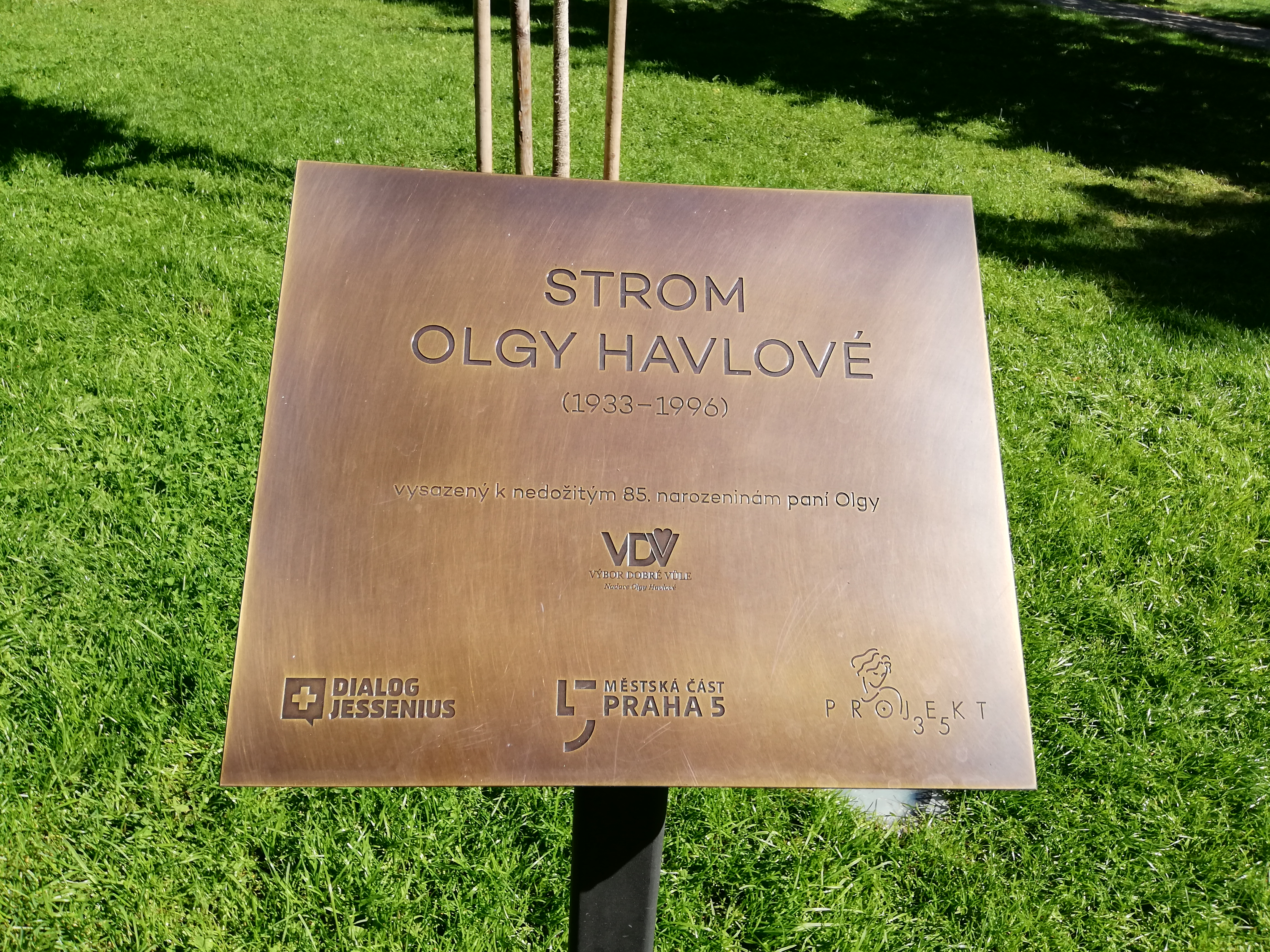 Brass plate for marking the 69th tree (linden tree) of Olga Havel. Linden tree was planted on 3 October 2018 in the garden of Portheimka in Smíchov in Prague 5.